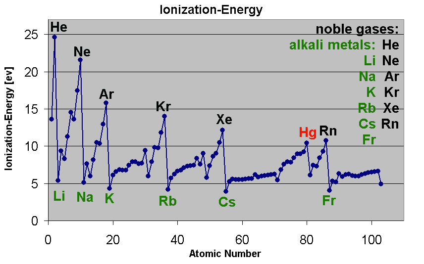 Ionization energy by atomic weight